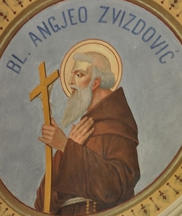 Anđeo Zvizdović OFM, fresco in Saints Peter and Paul Church, Livno (completed 1906)